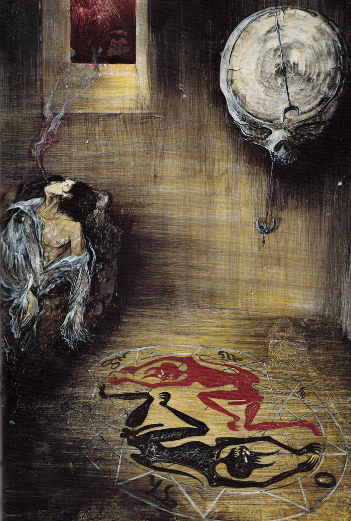 Melmoth illustration